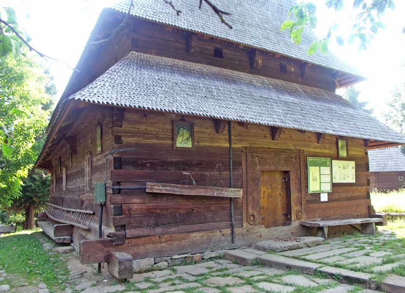 Budeşti Josani, entrance after the renovation from 2002.